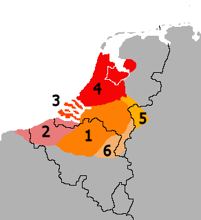 Map of Low Franconian languages / dialects without language specific text. 1. Brabantic 2. East and West Flemish 3. Zealandic 4. Hollandic 5. Zuid-Gelders 6. Limburgish Created by User:Laurens based on public domain image